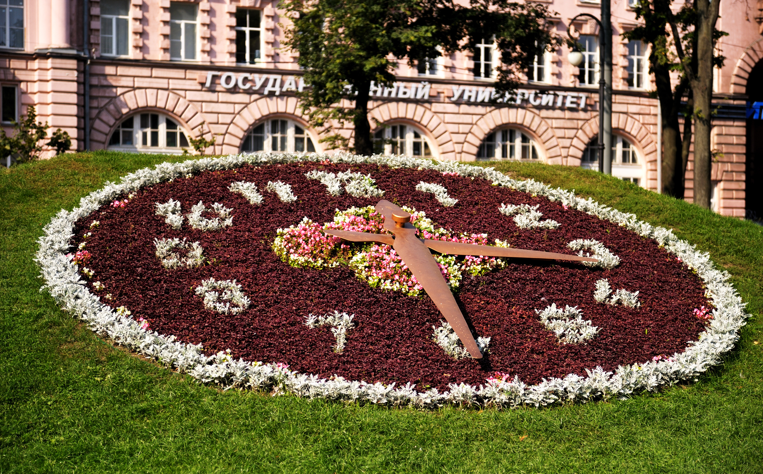 The flower clock in St. Petersburg in front of the Saint Petersburg State University of Information Technologies, Mechanics and Optics building. Donated by Switzerland in 2003 (300 years of Saint Petersburg).